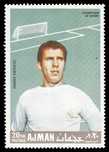 A 1968 Ajman stamp commemorating Real Madrid player Amancio Amaro.